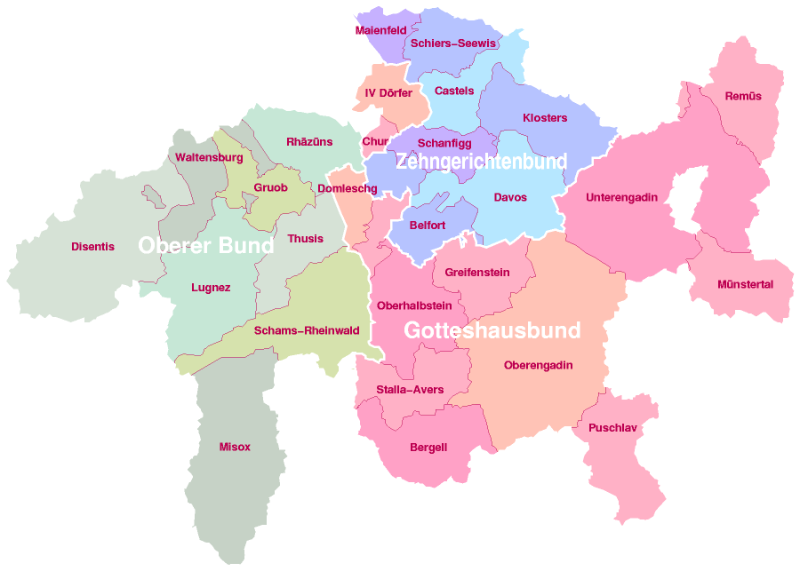 Map of the former state Drei Bünde in the canton Graubrünen, Switzerland